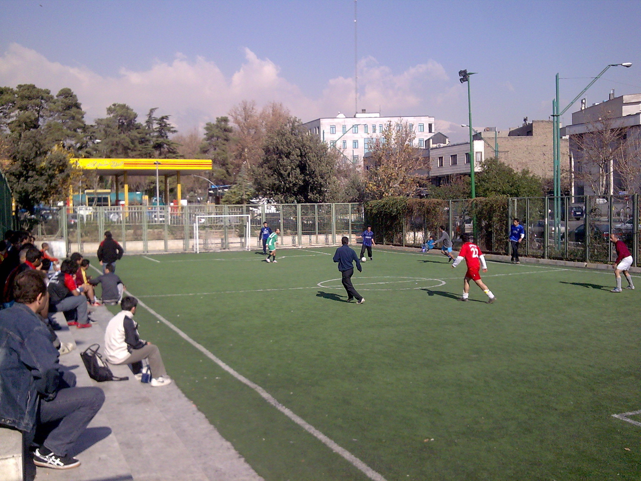 Iranian youths playing on a Postiche turf football field in Tehran, Iran